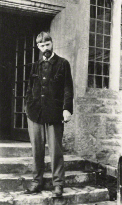 Photograph of D. H. Lawrence